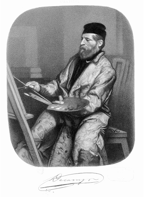 Engraving of self-portrait of French painter Alexandre-Gabriel Decamps (1803-1860)